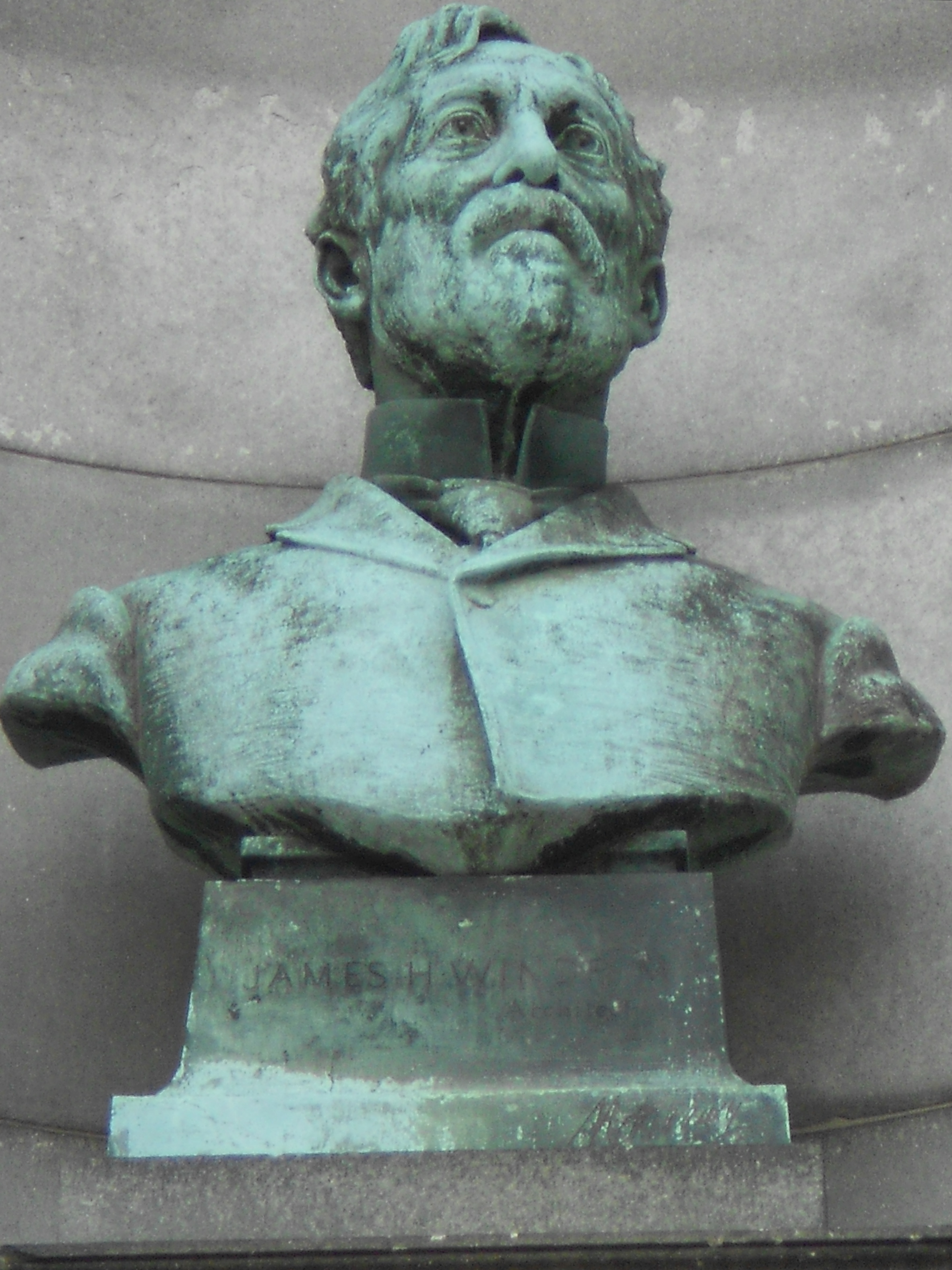 Smith Memorial Arch: Sculpture of James H. Windrim, Esq. by Samuel Murray, 1898. Bronze sculpture with granite base. SIRIS reference IAS PA000530.